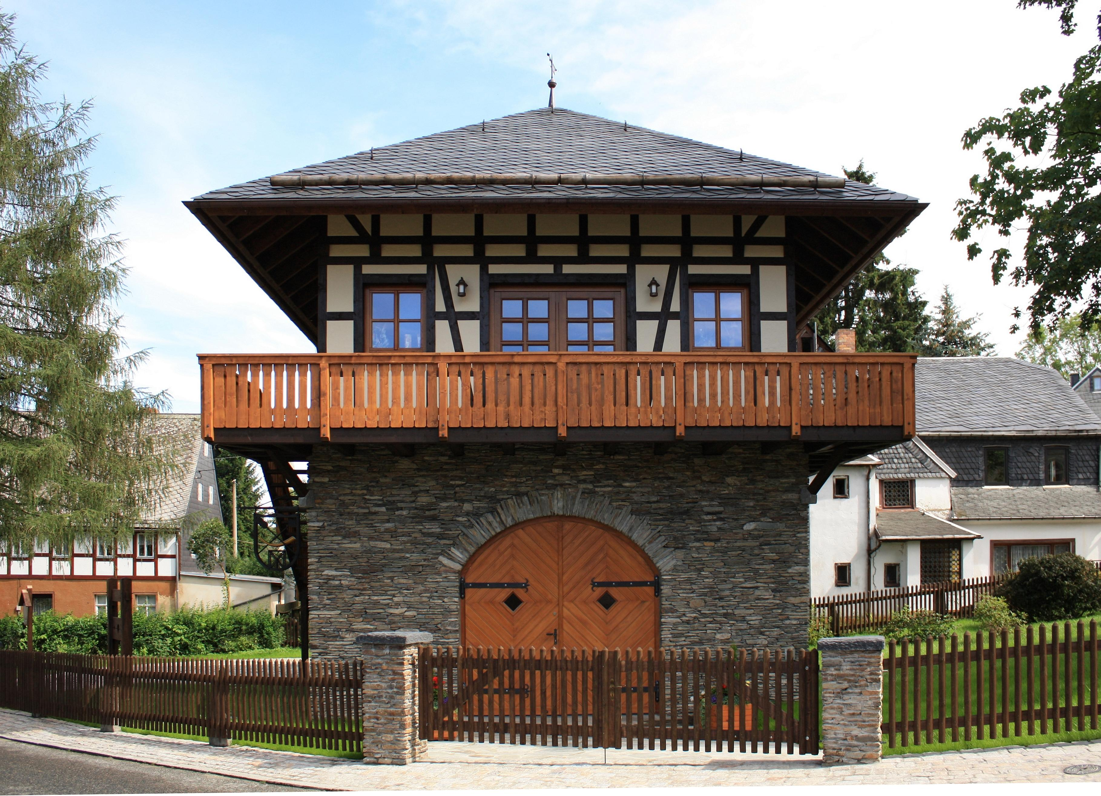 Fronveste Zwönitz